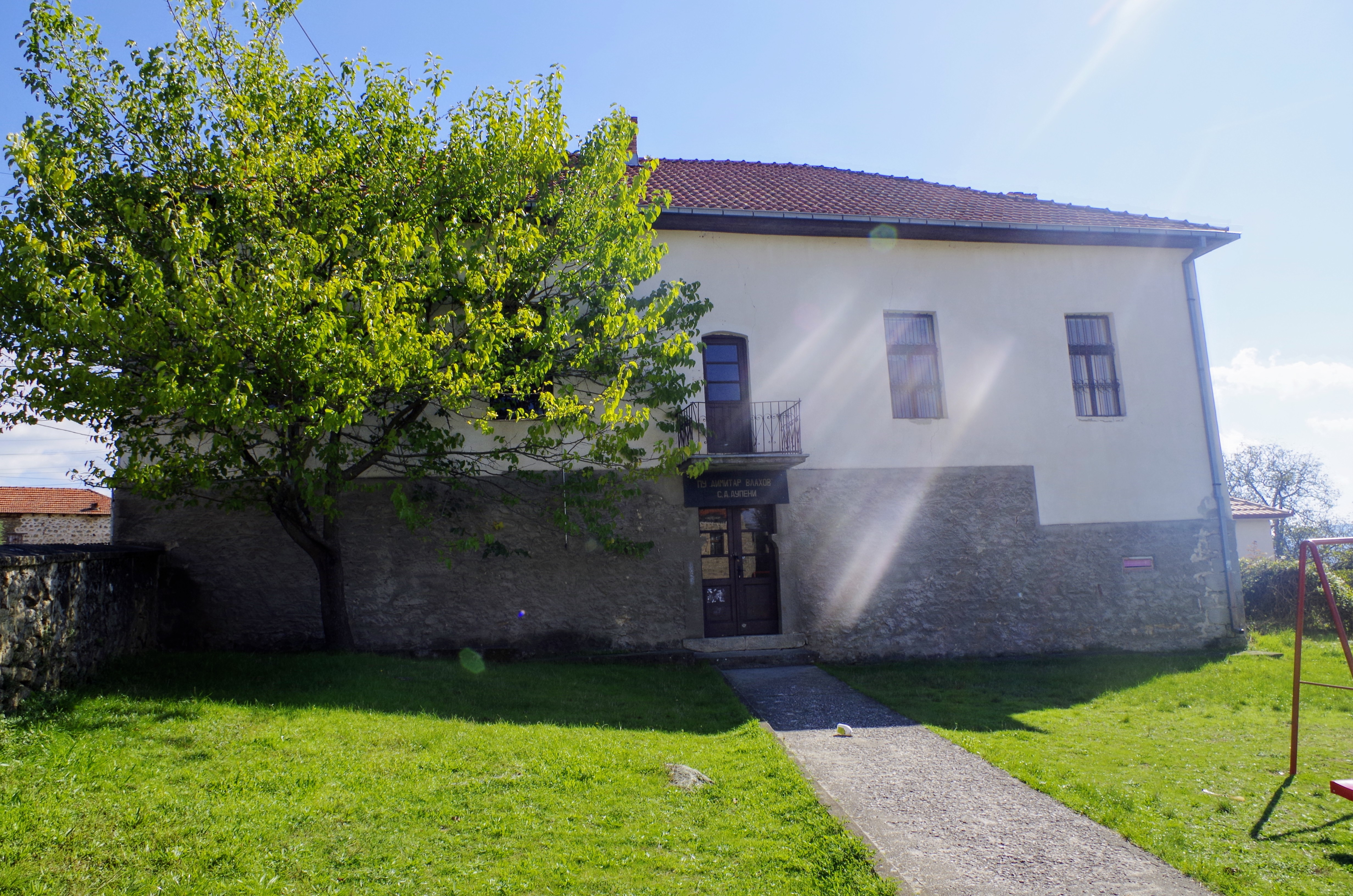 View of the primary school in the village Dolno Dupeni